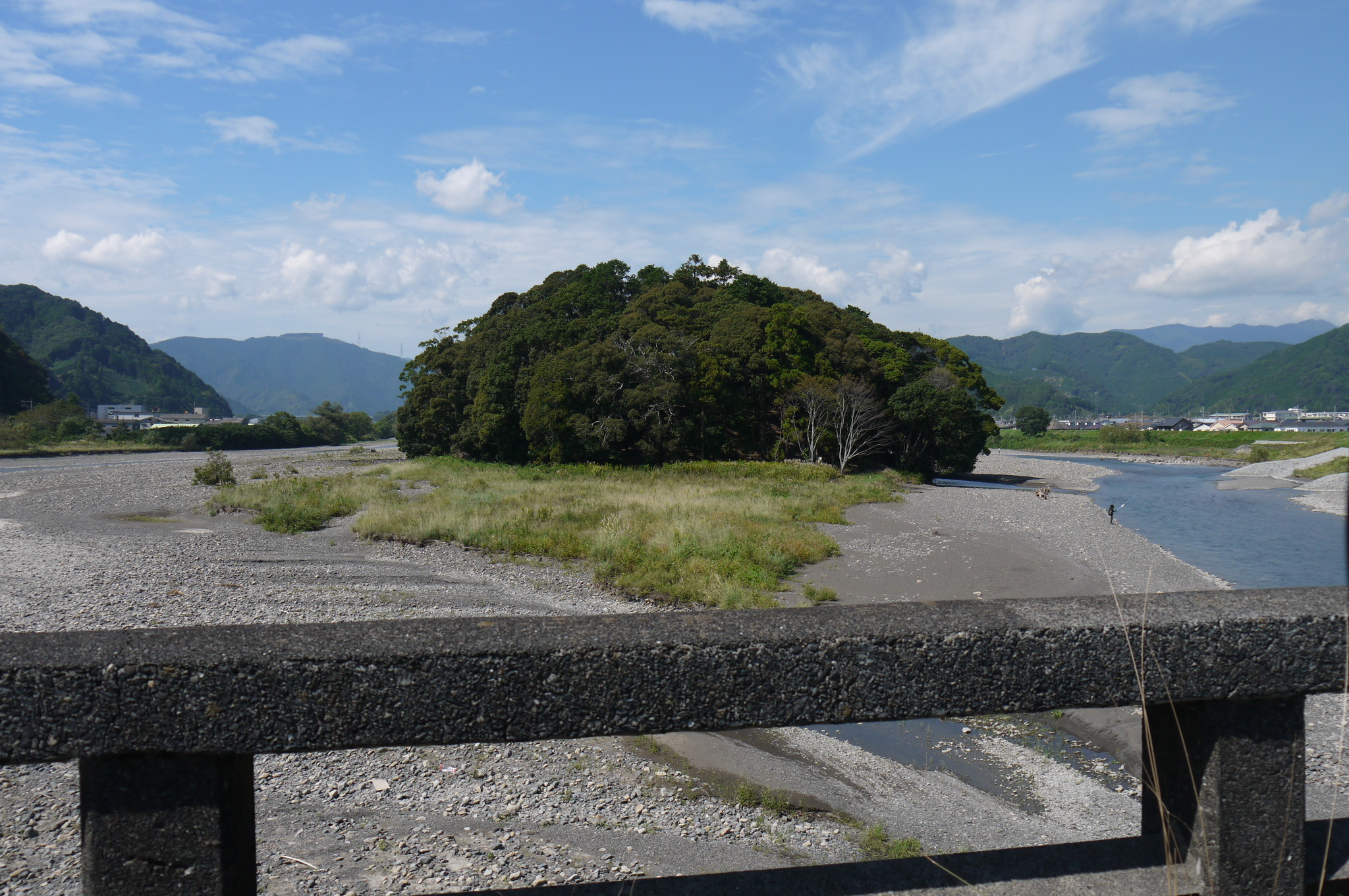 Kagarashinomori is a river island on the Warashina River.